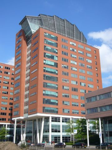 Utrecht, AXA Verzekeringen